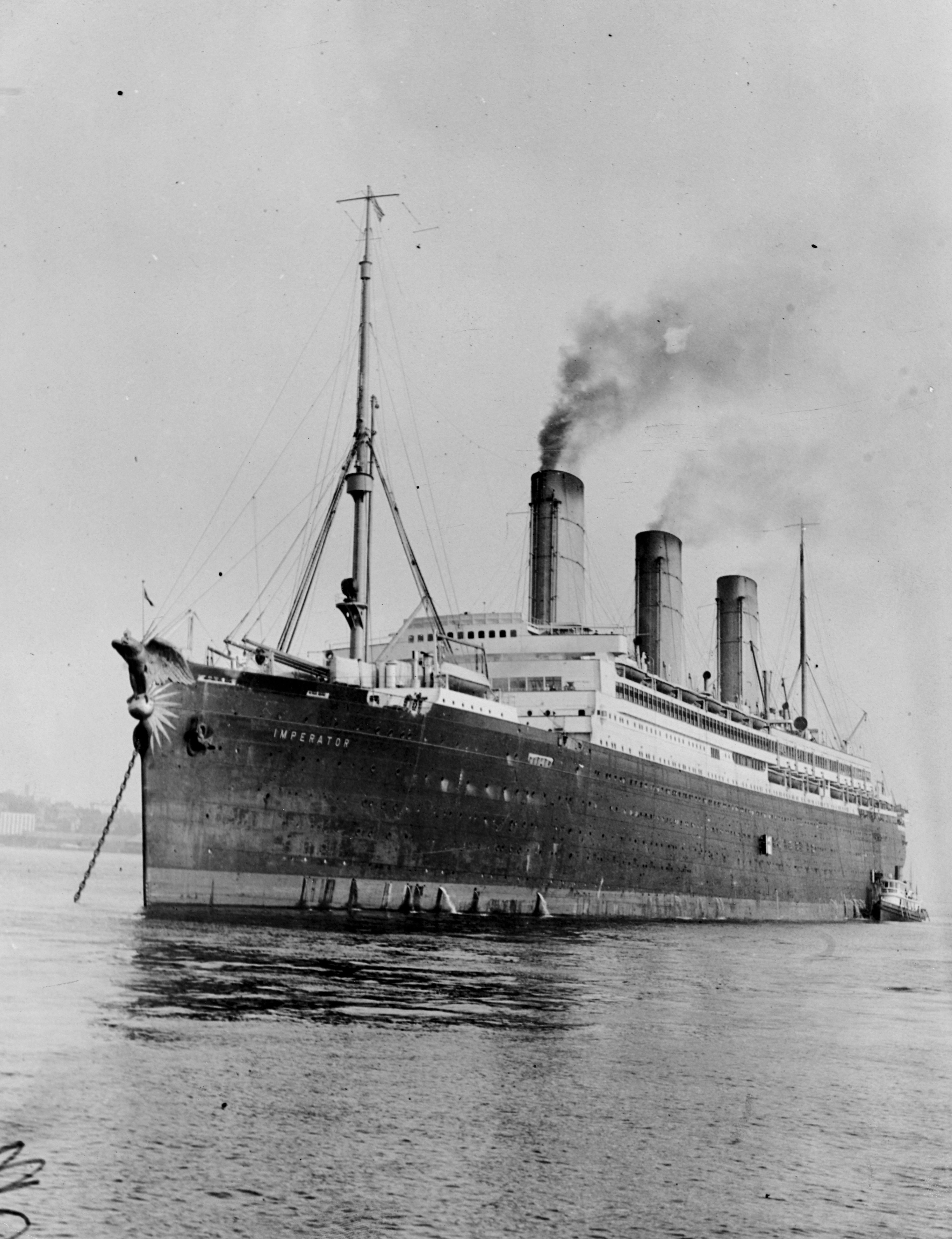 Photo #: NH 41938 Imperator (German Passenger Liner, 1913) At anchor, circa 1913. Note her huge figurehead, which was removed early in the ship's career after being damaged in a storm. This ship served as USS Imperator (ID # 4080) in 1919. U.S. Naval Historical Center Photograph.